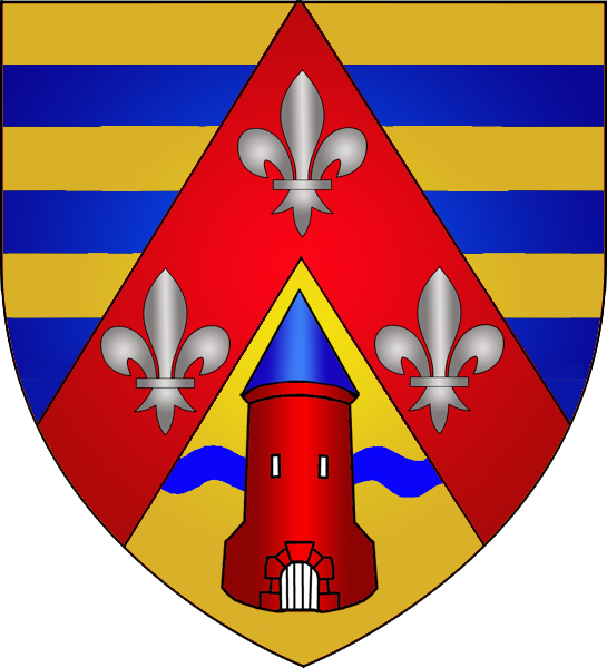 Coat of arms of the municipality of Weiler-la-Tour, Luxembourg